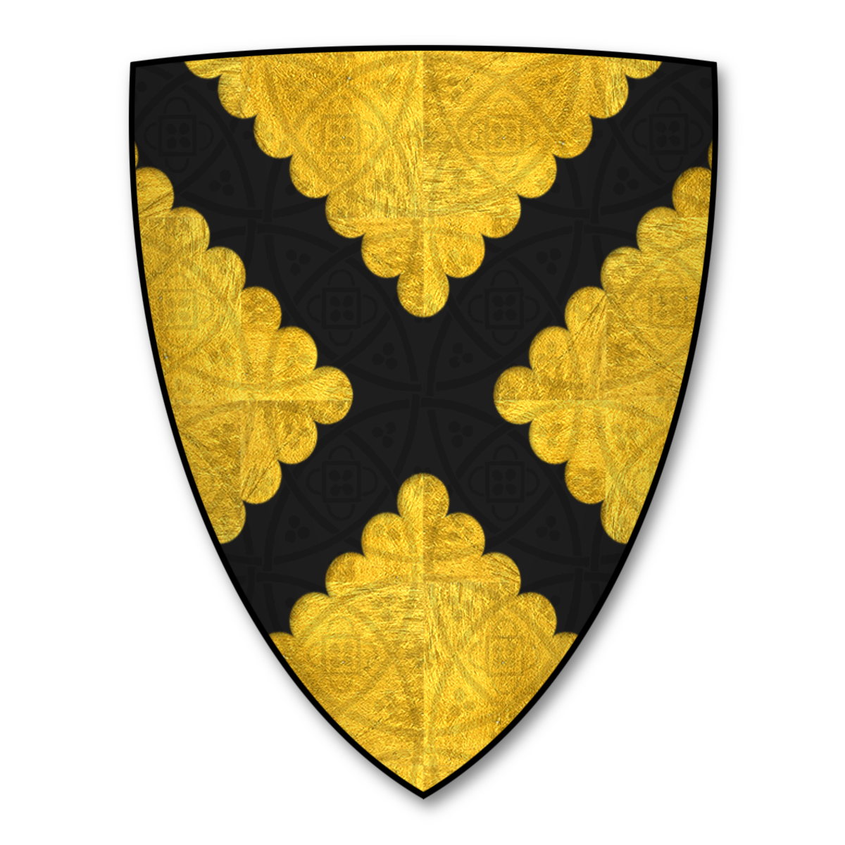 Coat of arms of John Botetourt, as blazoned in the Caerlaverock Poem (K-046: "Johans Boutetourte") "A un sautour noir engreellie Jaune baniere ot e penon." Arms: Or, a saltire engrailed sable.